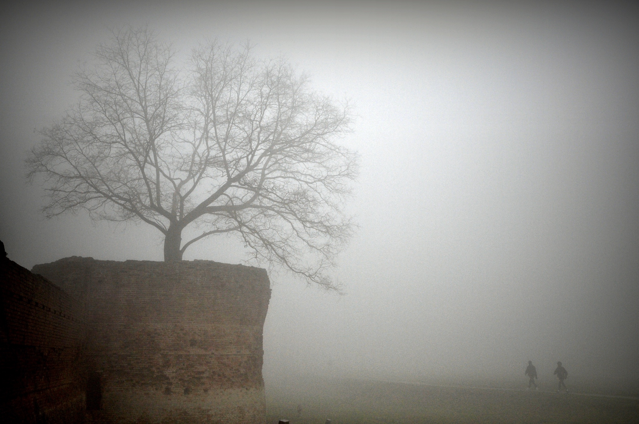 A detail of the renaissance walls of Ferrara, Italy